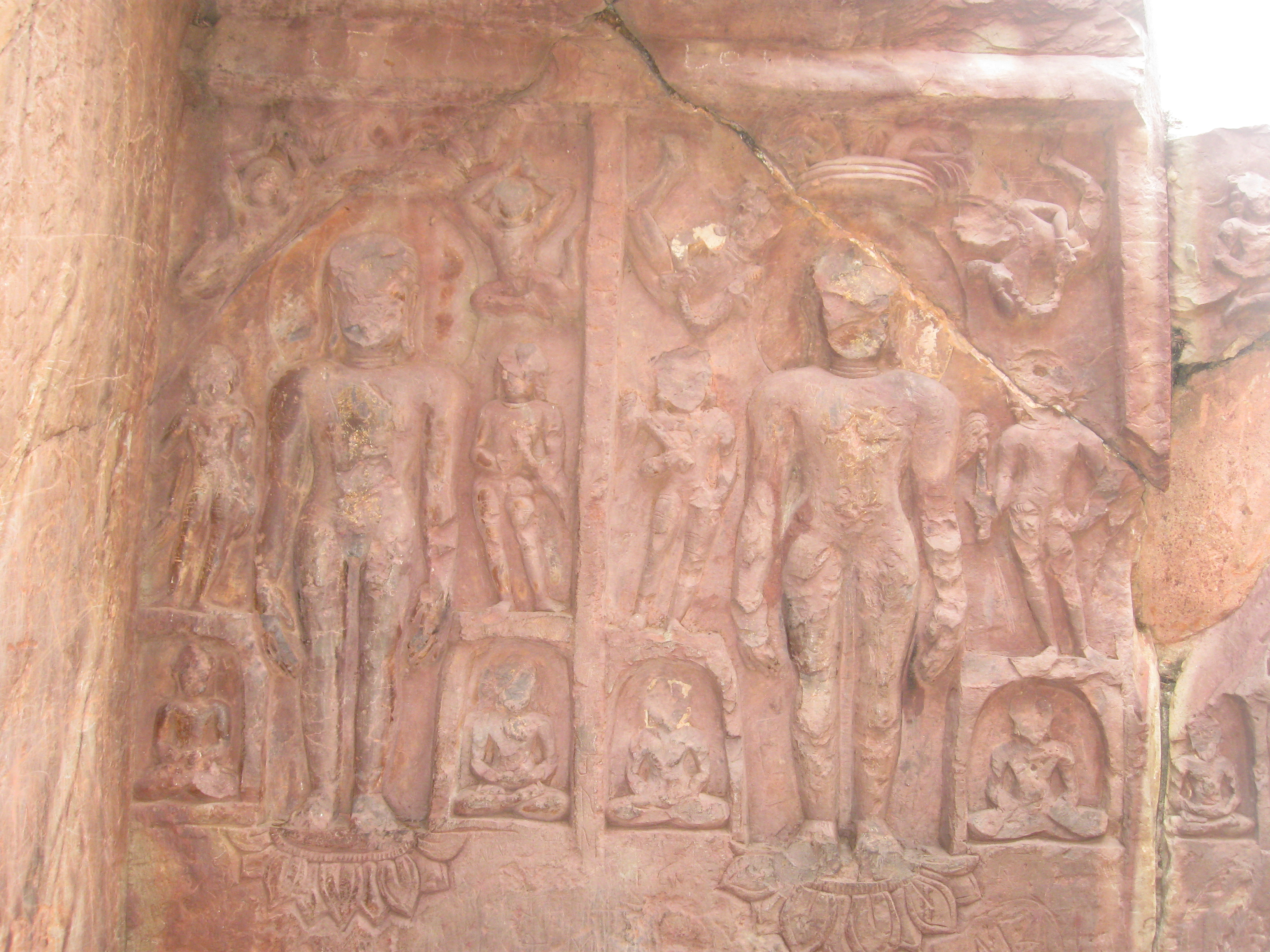 image of God(made on hard rock)